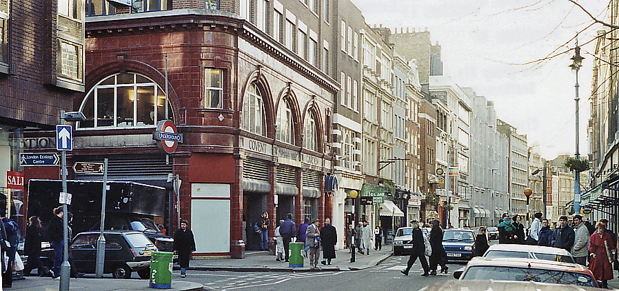 Entrance to Covent Garden Underground station, 1991. View SW, on Long Acre towards Leicester Square: LT Piccadilly Line. The distance between Leicester Square and Covent Garden stations is one of the shortest on the Underground system and it's quicker to walk.